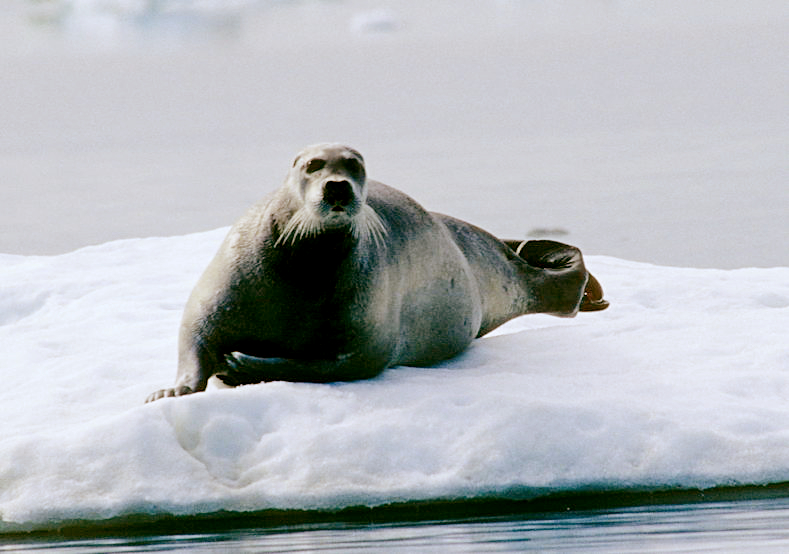 Bearded seal, Erignathus barbatus, on ice flow in Foxe Basin (near Igloolik, Nunavut, Canada)